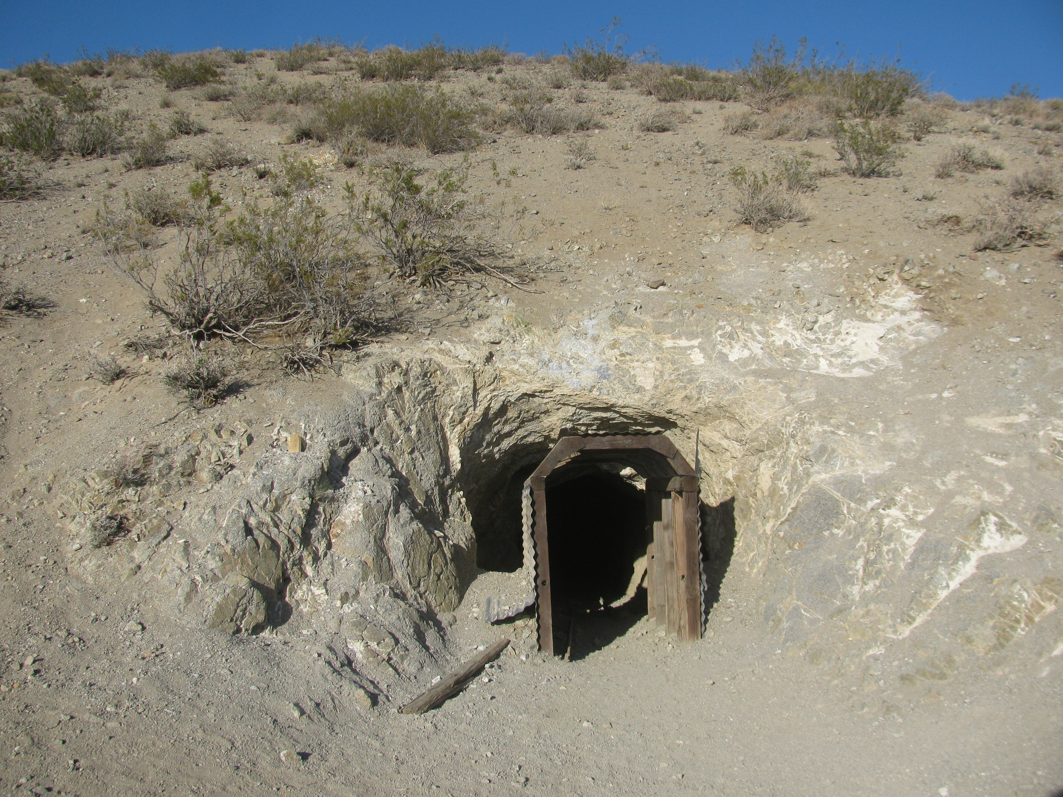 The historic Burro Schmidt Tunnel — through the granitic El Paso Mountains, located in the northern Mojave Desert, Southern California. View of the "exit" adit (portal), that overlooks the Fremont Valley with Koehn Dry Lake, and the ghost town of Garlock. It was a mining ore transport tunnel dug by hand by William "Burro" H. Schmidt between 1906 and 1938. Managed by the BLM−Bureau of Land Management, it is on the National Register of Historic Places in Kern County, California